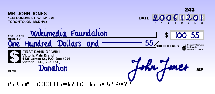 Cheque sample for a fictional bank in Canada. May also apply for the United States. Created by Sergio Ortega based on real cheque standards. Note: U.S. checks are the same except for the MICR format, which is slightly different, and the issue date which is not OCR-ready as it is in Canada. Some U.S. checks also still have a "fractional routing number" near the date; this was used in hand-sorting checks prior to MICR.